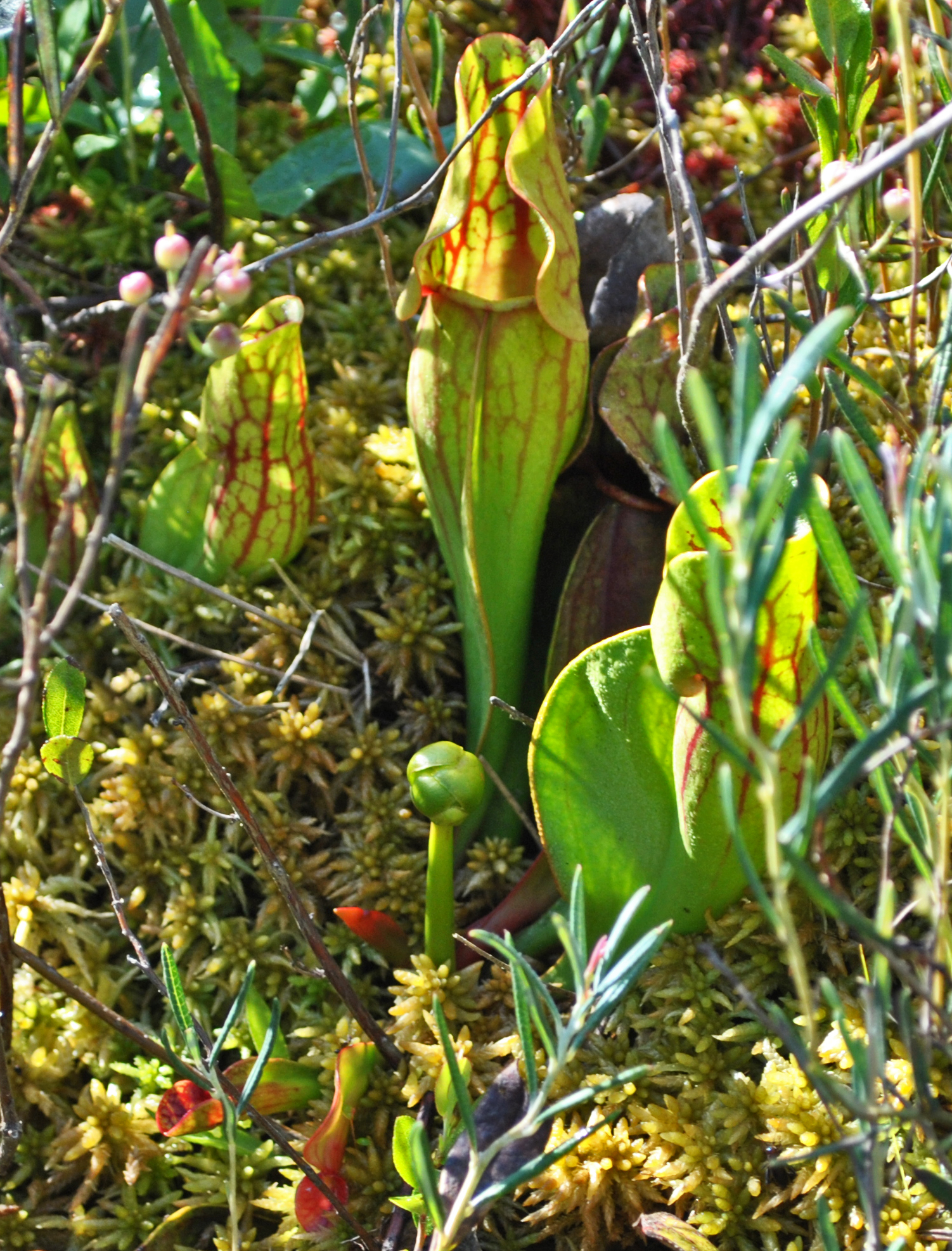 Black Tern Bog State Natural Area, Vilas Co., WI